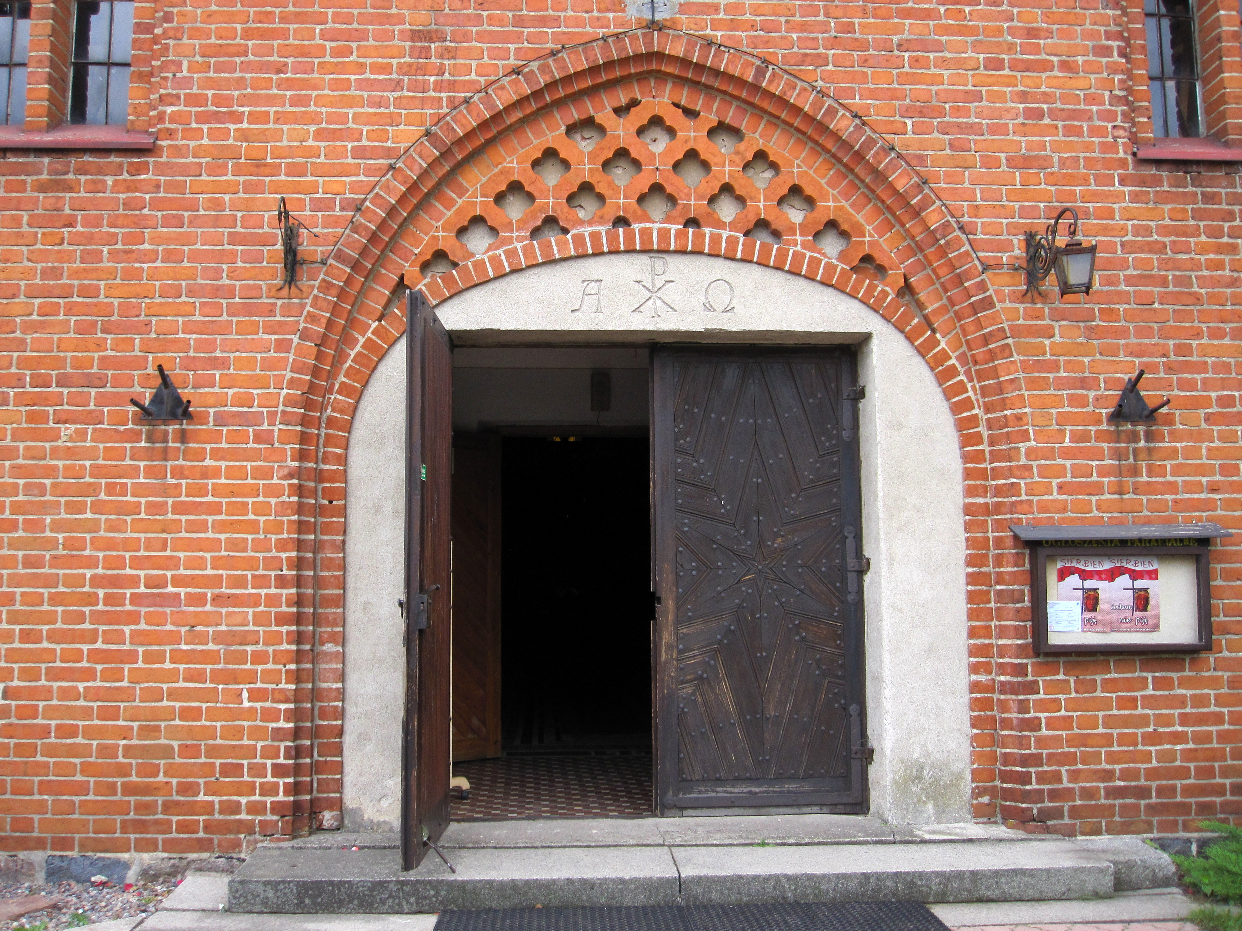 Our Lady of Czestochowa church in Turośl, piski county